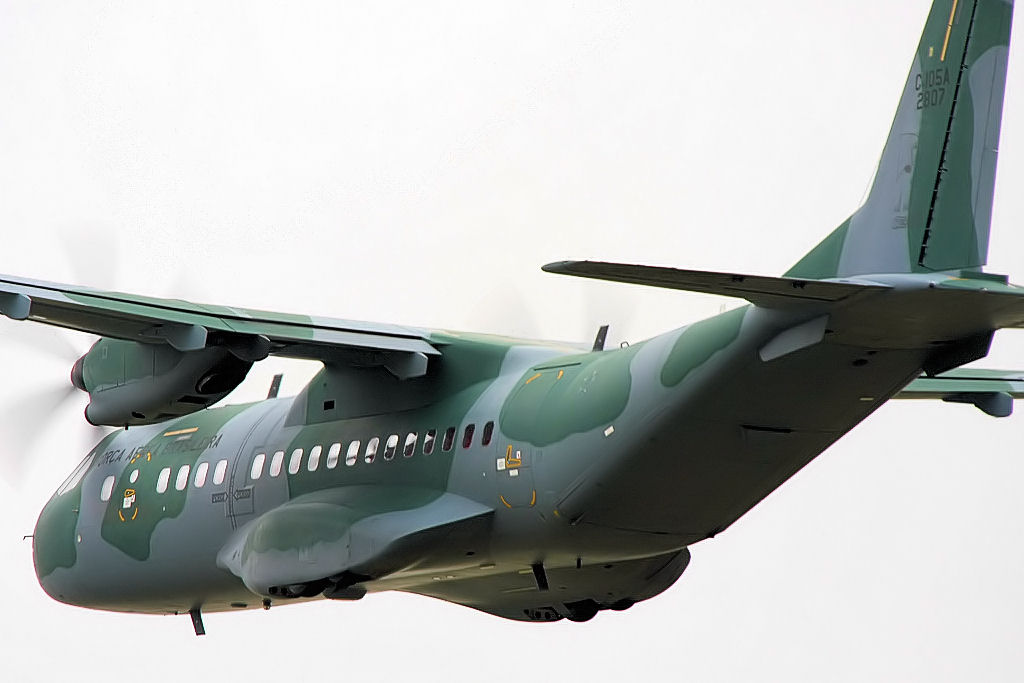 C105 - RIAT 2008